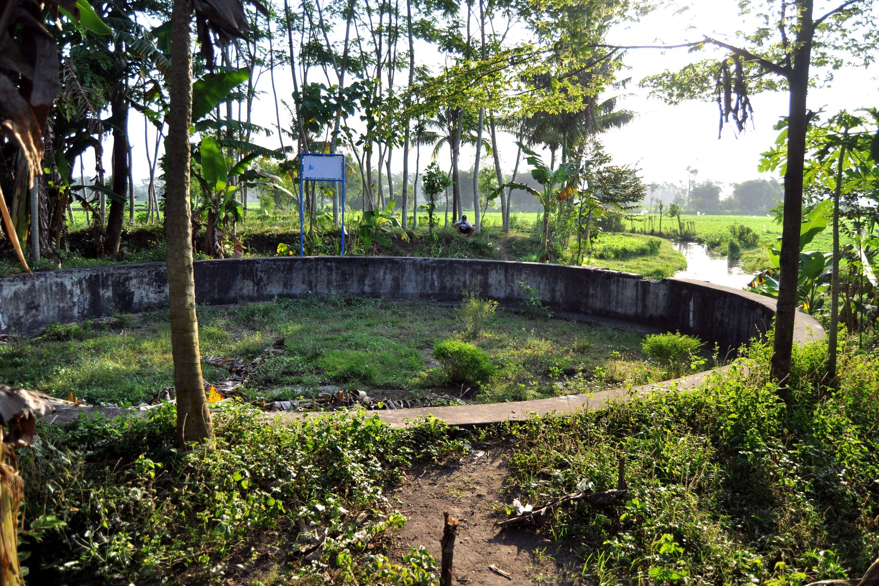 Ex Yosowilangun train station, closed since 1986, in Lumajang, East Java, Indonesia. Ex turn table.